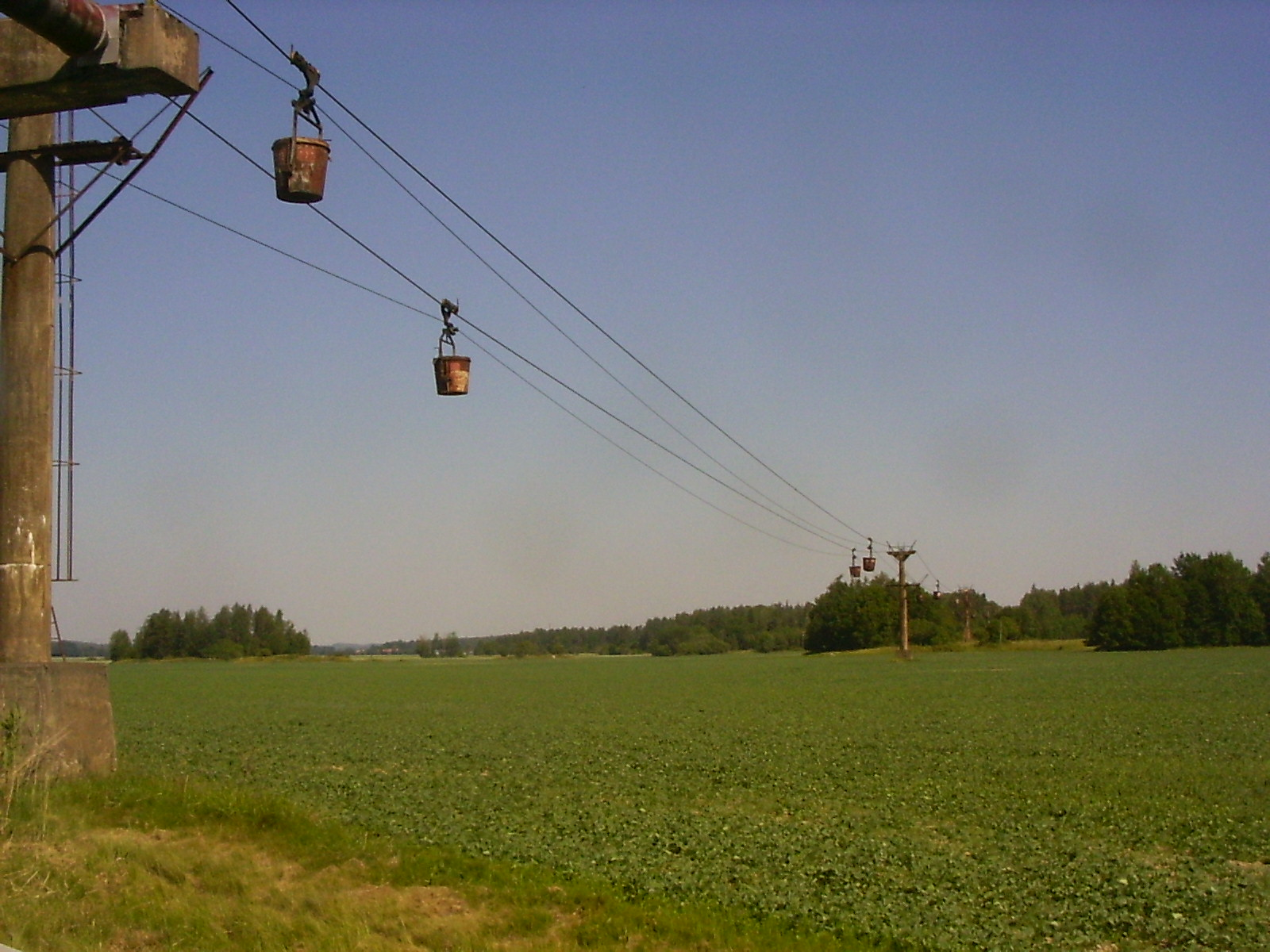 The limestone ropeway crosses route 56